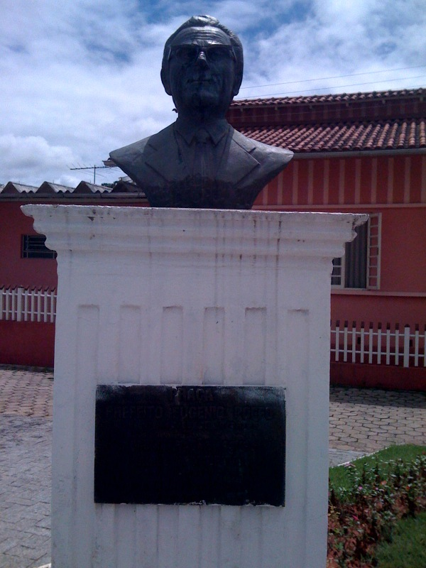 Bust of Eugênio Poffo at Ascurra, Brazil